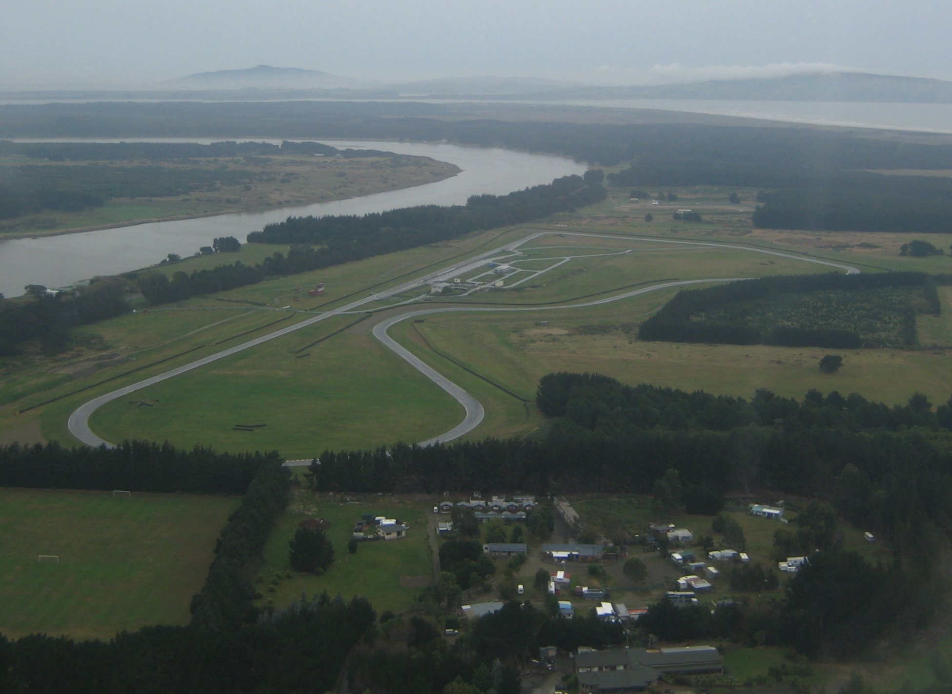 Teretonga Park, Invercargill New Zealand. Viewed from a plane landing at Invercargill airport.